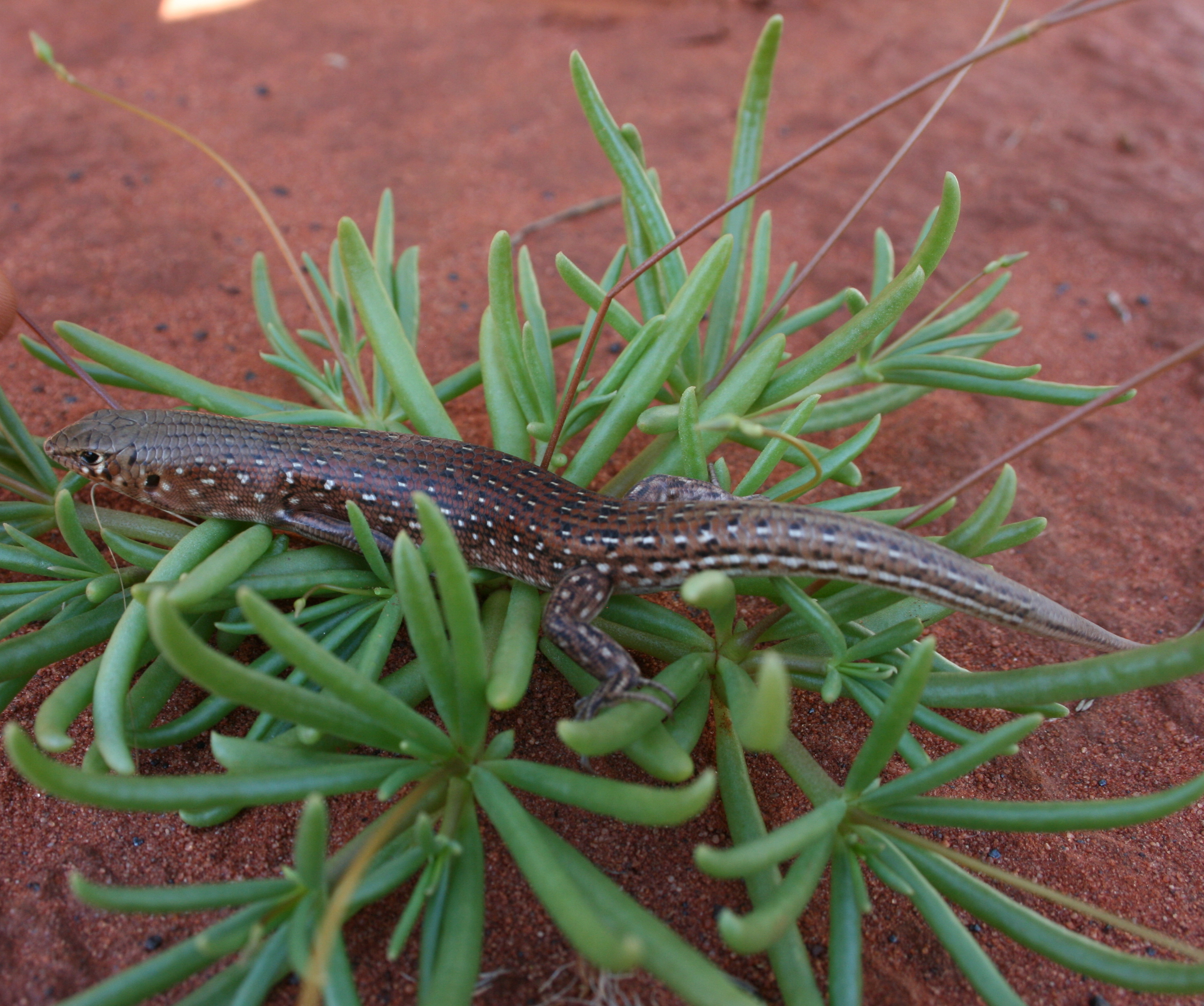 Ctenotus pantherinus identified on Angas Downs during reptile surveys using pitfalls and funnel traps.